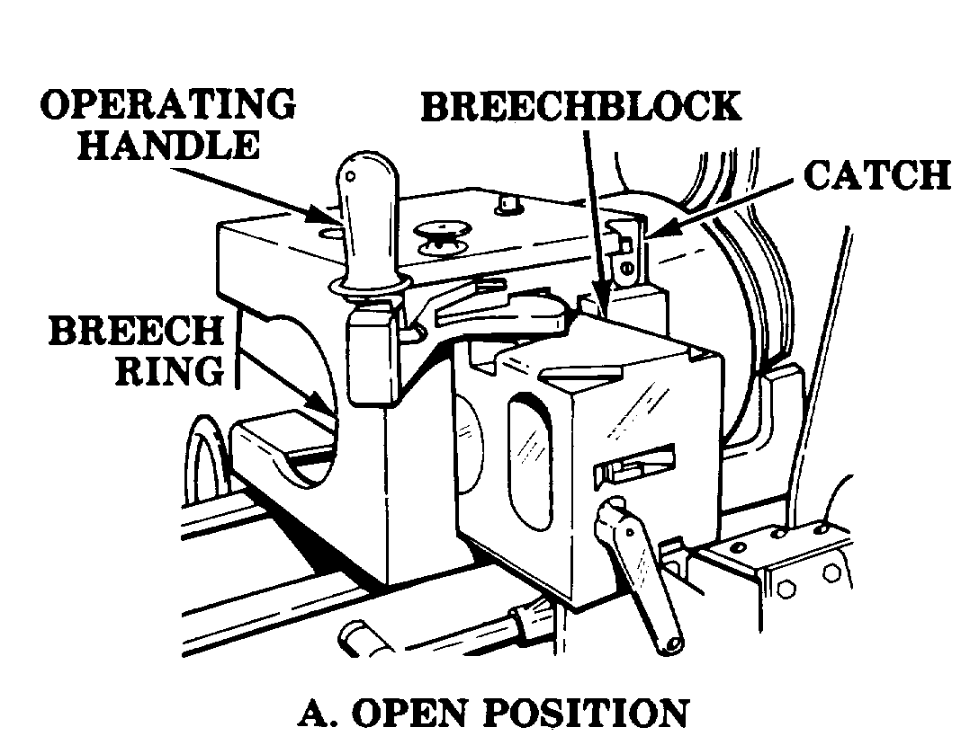 Horizontal sliding-wedge breech operating mechanism